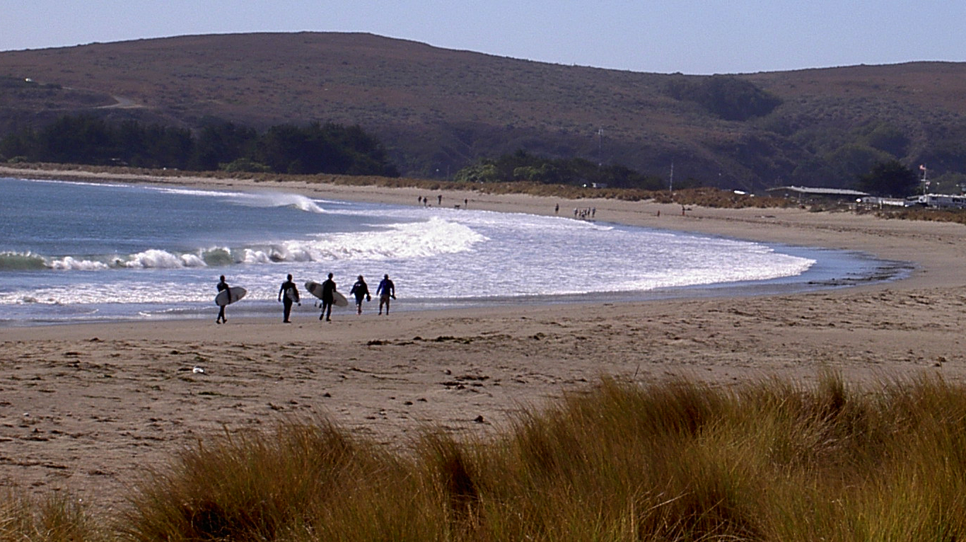 surfers walking along Doran Beach